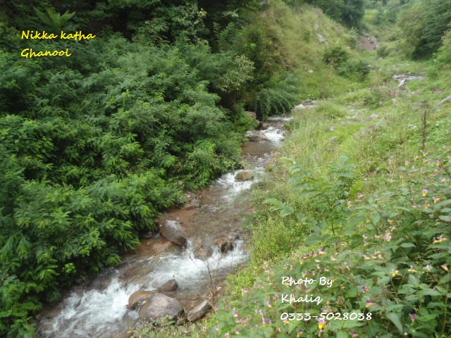 Nikka Katha Ghanool